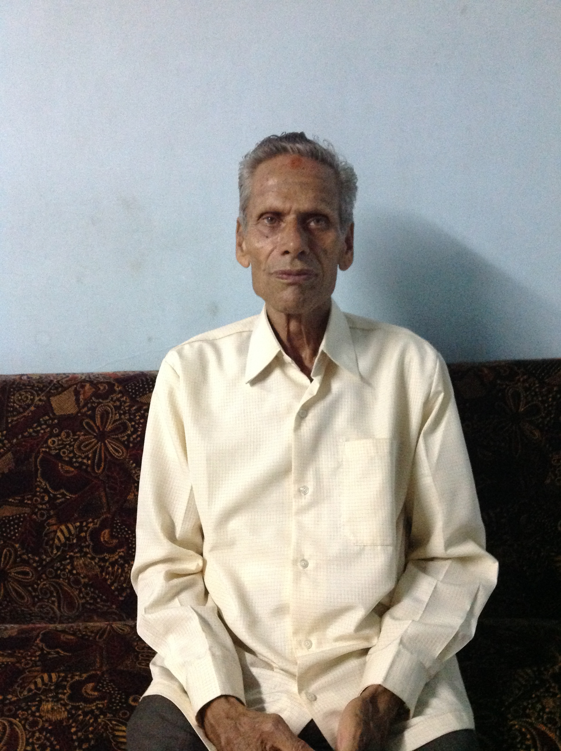 H.M.Thimmappa